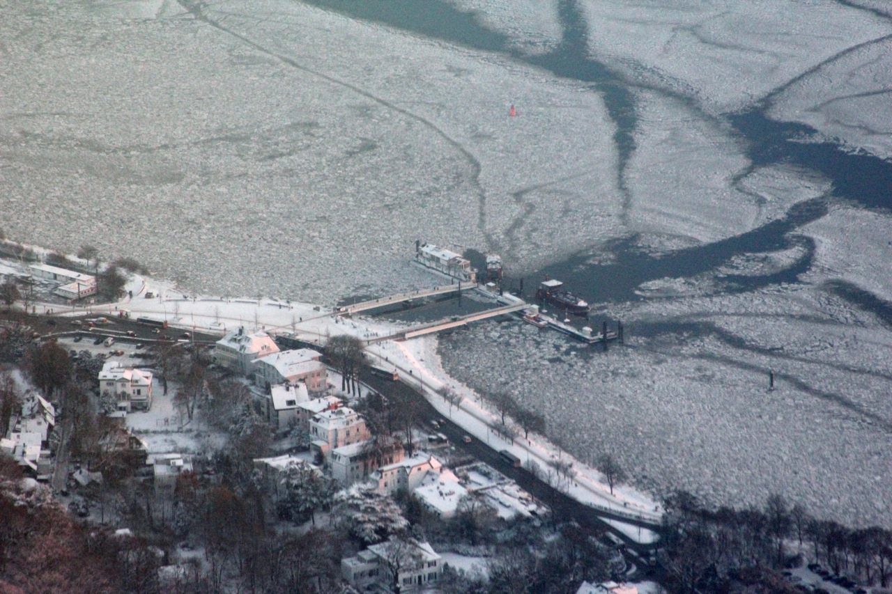 Teufelsbrück area with the HADAG ferry stop, within the city of Hamburg at the northern shore of the Elbe river; the Elbe is covered with fragments of ice. As seen from an aircraft approaching Hamburg Airport (HAM/EDDH)